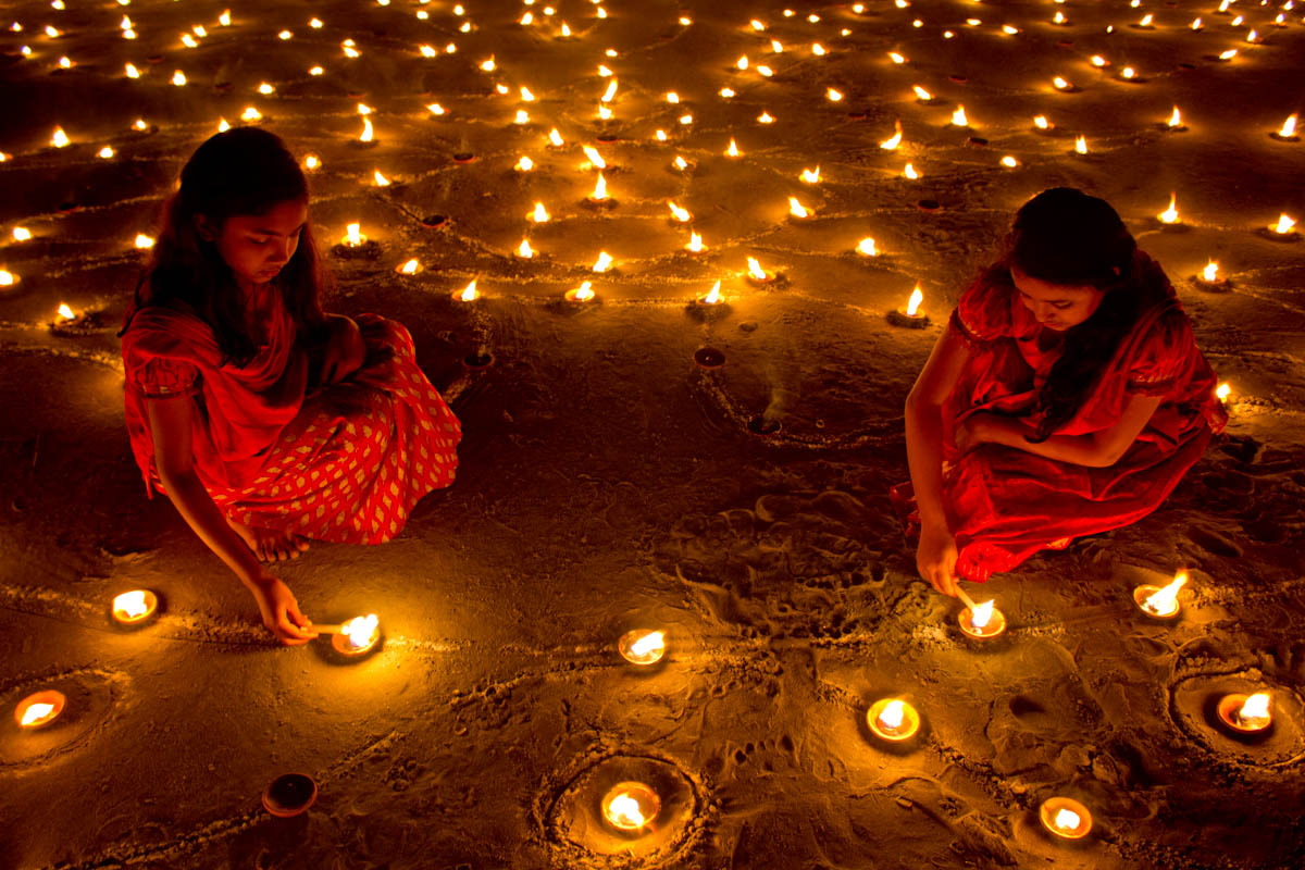 pepole of Hindu riligion alighted candle and clay lamp in their house and temples at the festival time.